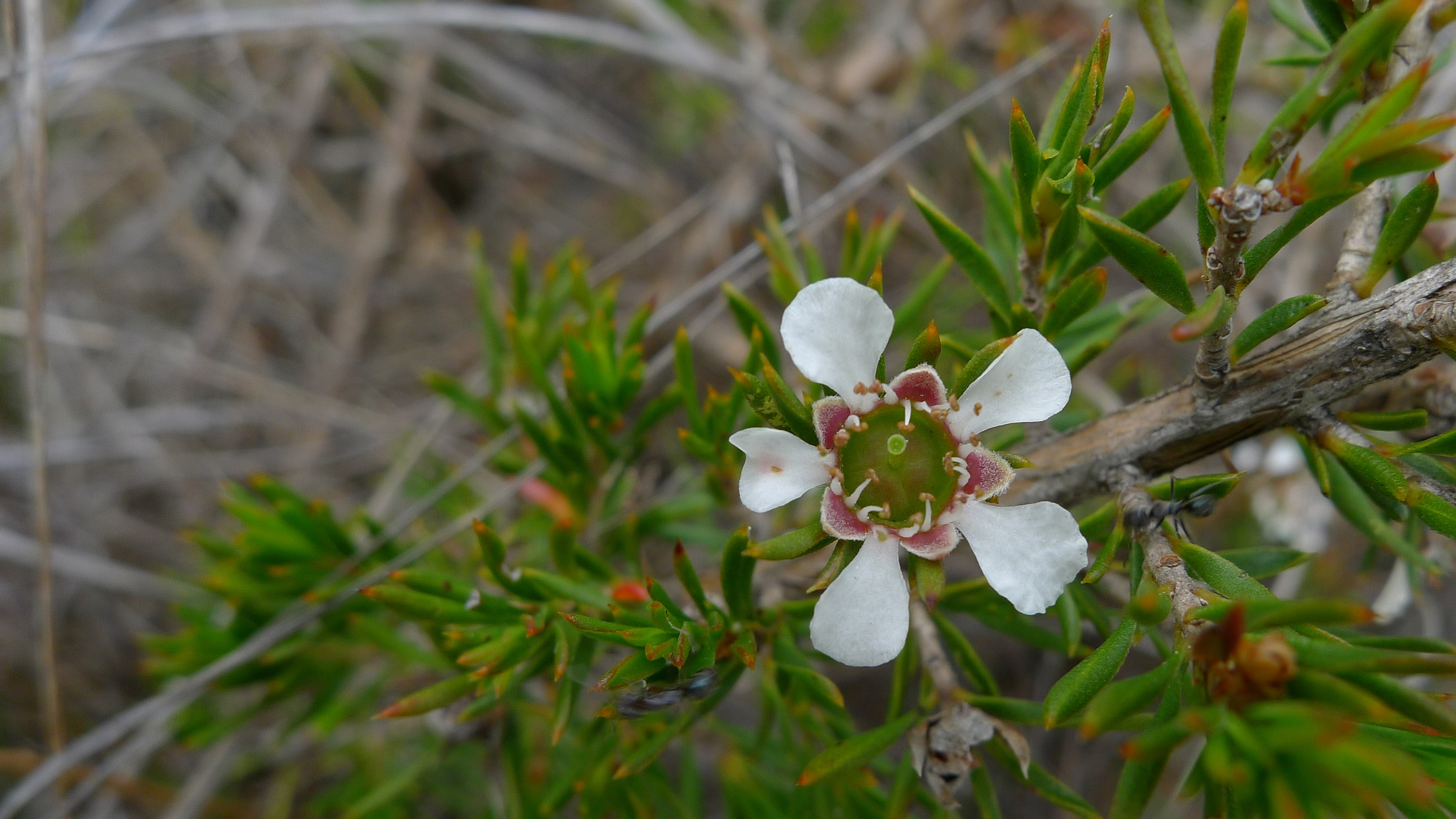 Spider Tea-tree, Leptospermum arachnoides, with white flowers and thin spiky leaves. Royal National Park, NSW Australia, November 2012.